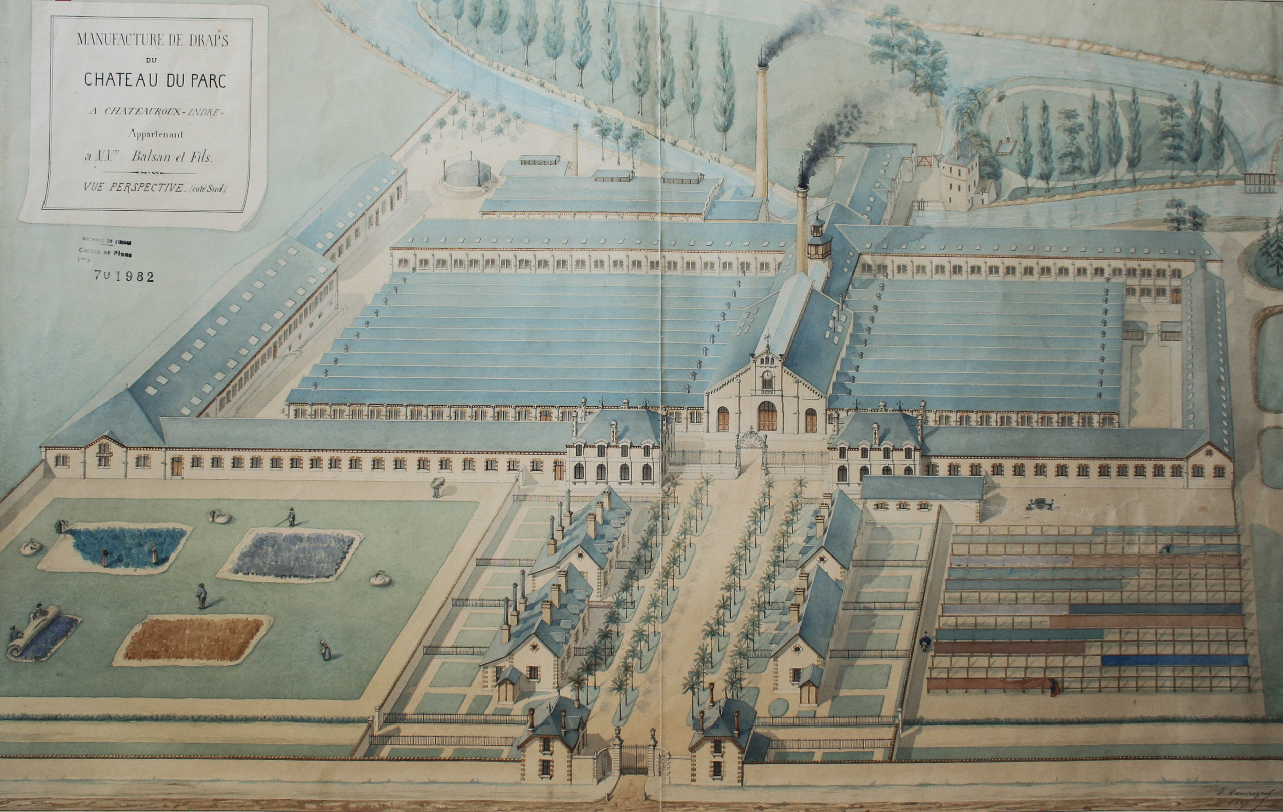 Manufacture Balsan Plan Alfred Dauvergne -1862-Sud